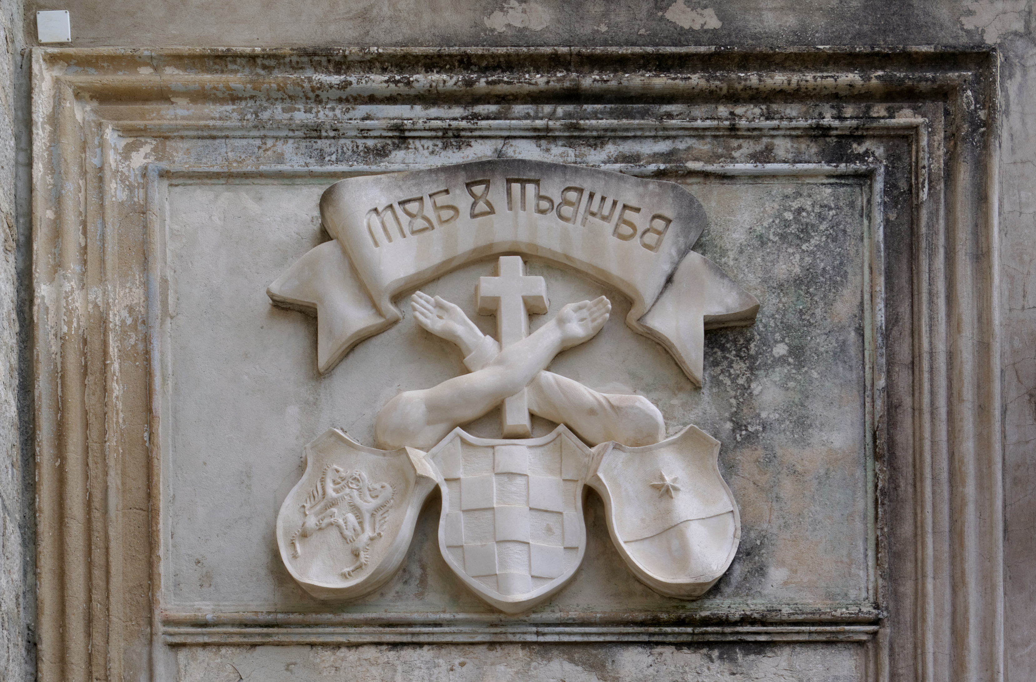 Croatia, Košljun, text written in Glagolitic over the main entrance to the monastery, "Mir i Dobro" (peace and well-being)